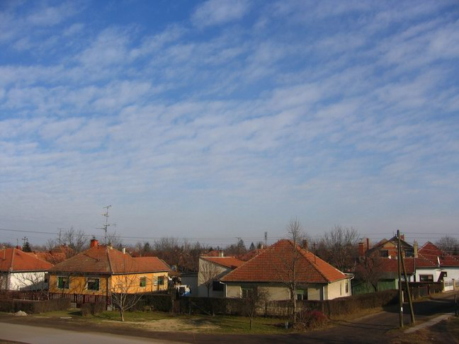 Aleksandrovo neighborhood in Subotica, Serbia Category:Subotica images